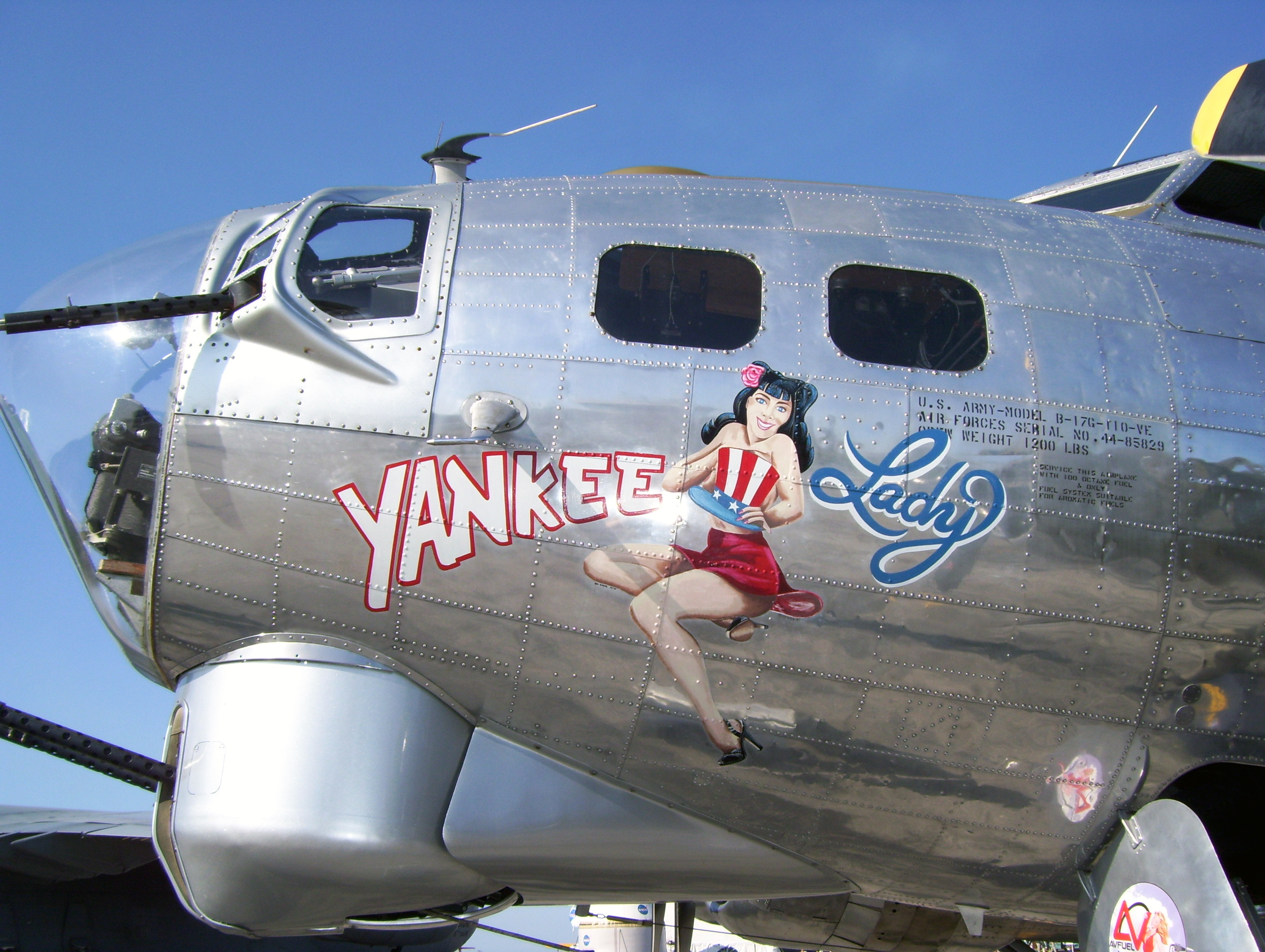 The nose art on the B-17 Flying Fortress Yankee Lady from the Yankee Air Museum, on display at the 2008 Cleveland National Air Show.